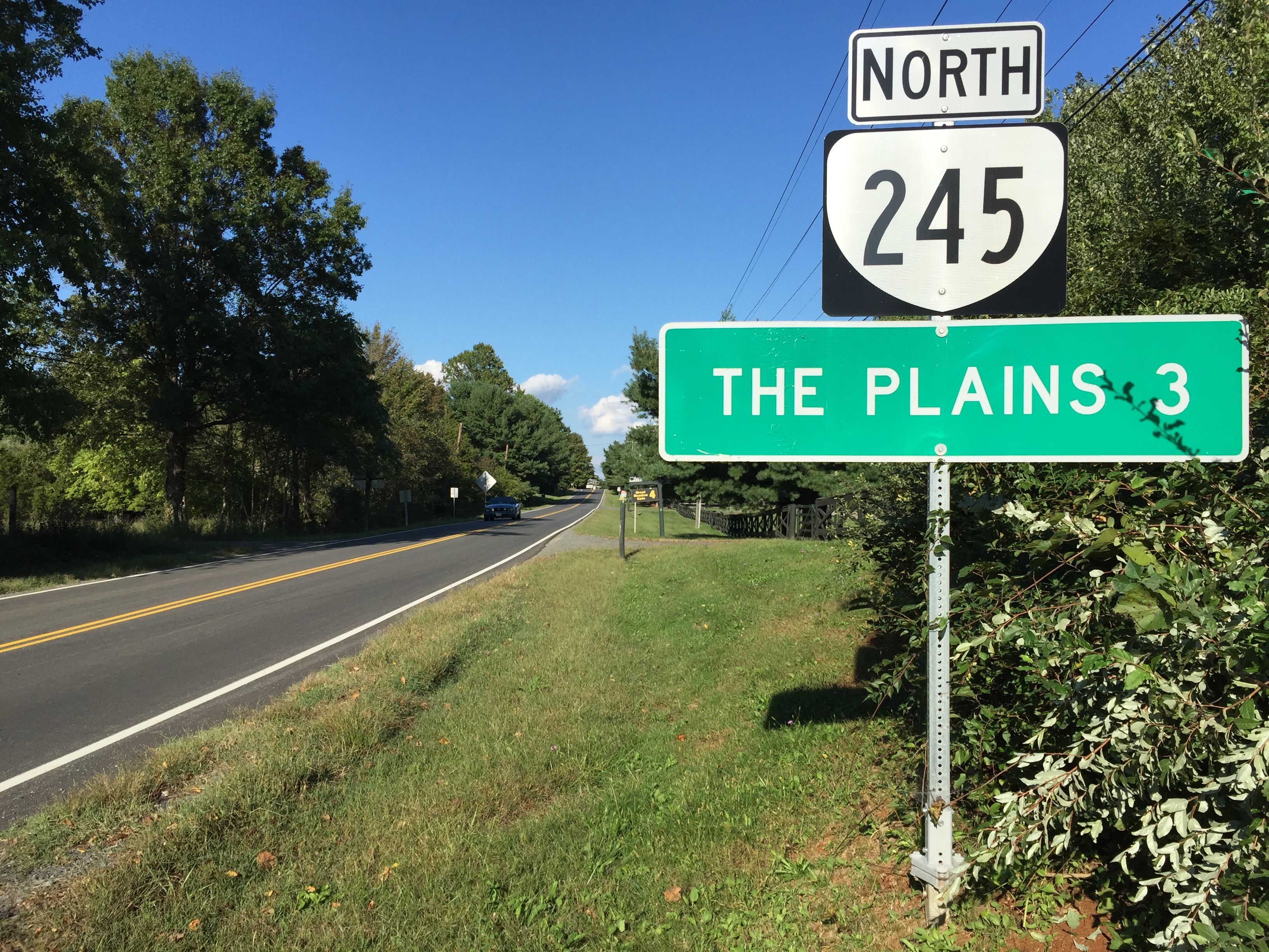 View north along Virginia State Route 245 (Old Tavern Road) at U.S. Route 17 (James Madison Highway/Winchester Road) in Old Tavern, Fauquier County, Virginia